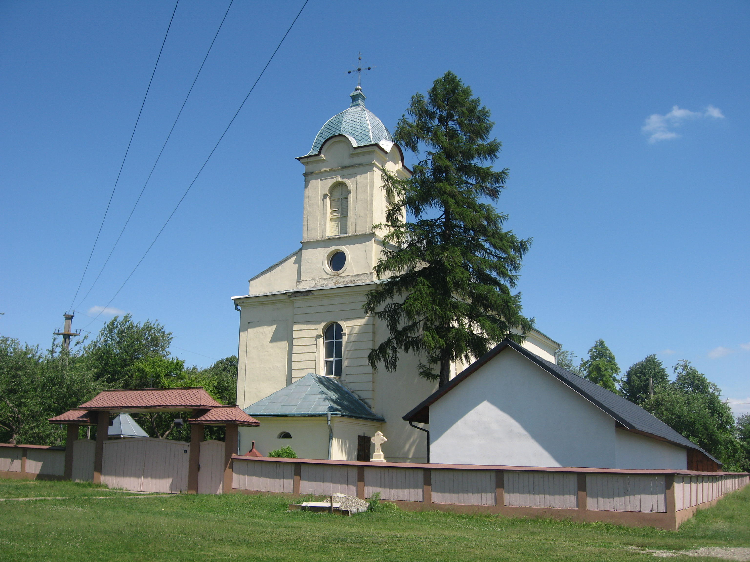 Assumption Church in Mitocu Dragomirnei, Suceava County, Romania